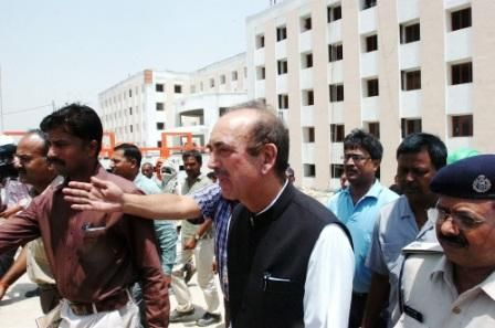 AIIMS Patna